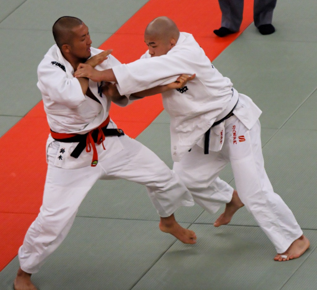 At the final of All-Japan Judo Championships in 2008 Left: Keiji Suzuki Right: Satoshi Ishii